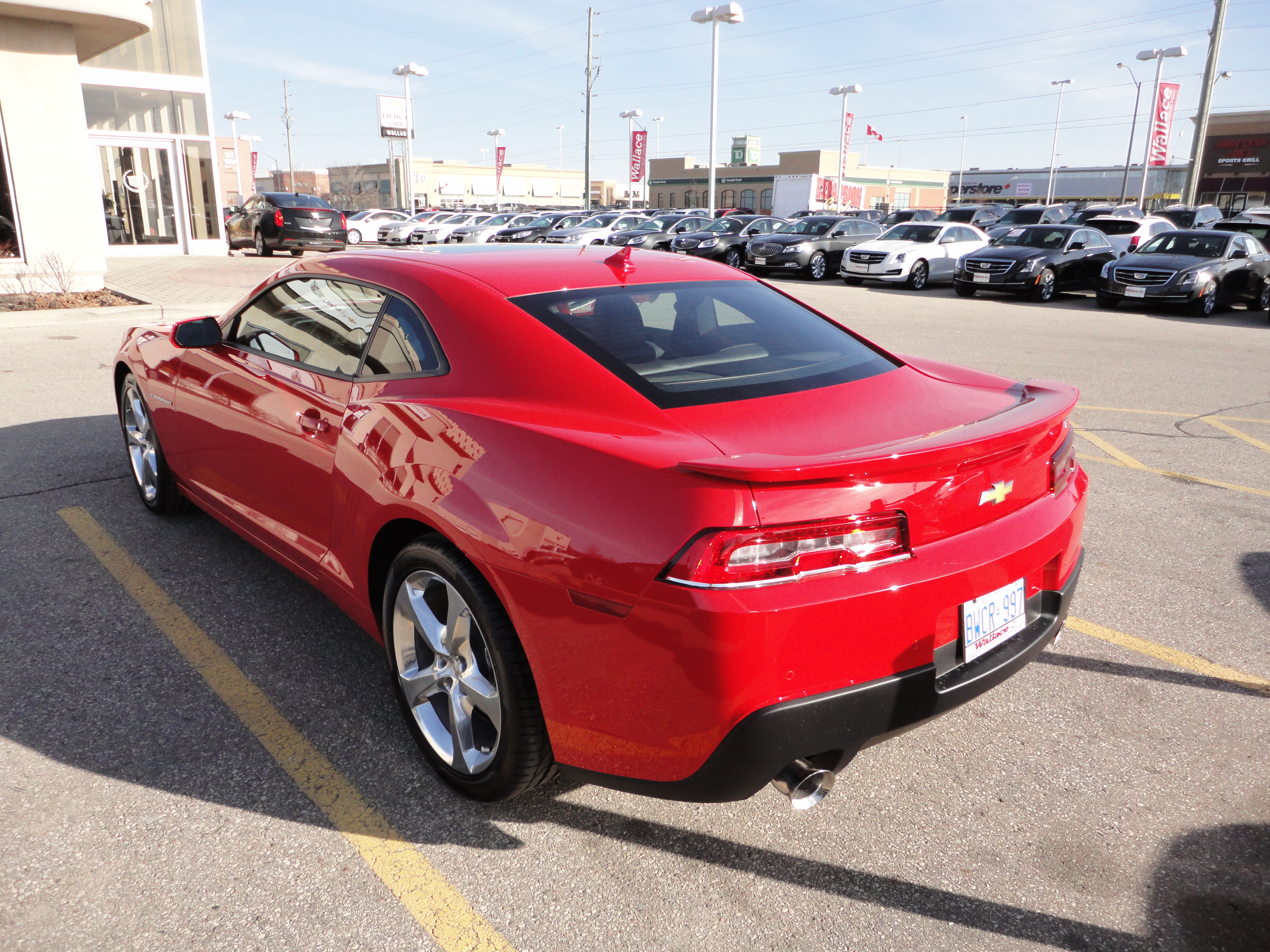 2015 Camaro RS rear view